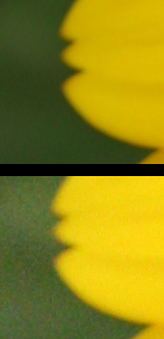 Comparison of two images taken at different ISO settings on a digital camera. This is a crop of a small section of each image displayed at 100%. The top portion was shot at 100 ISO, the bottom section at 1600 ISO.